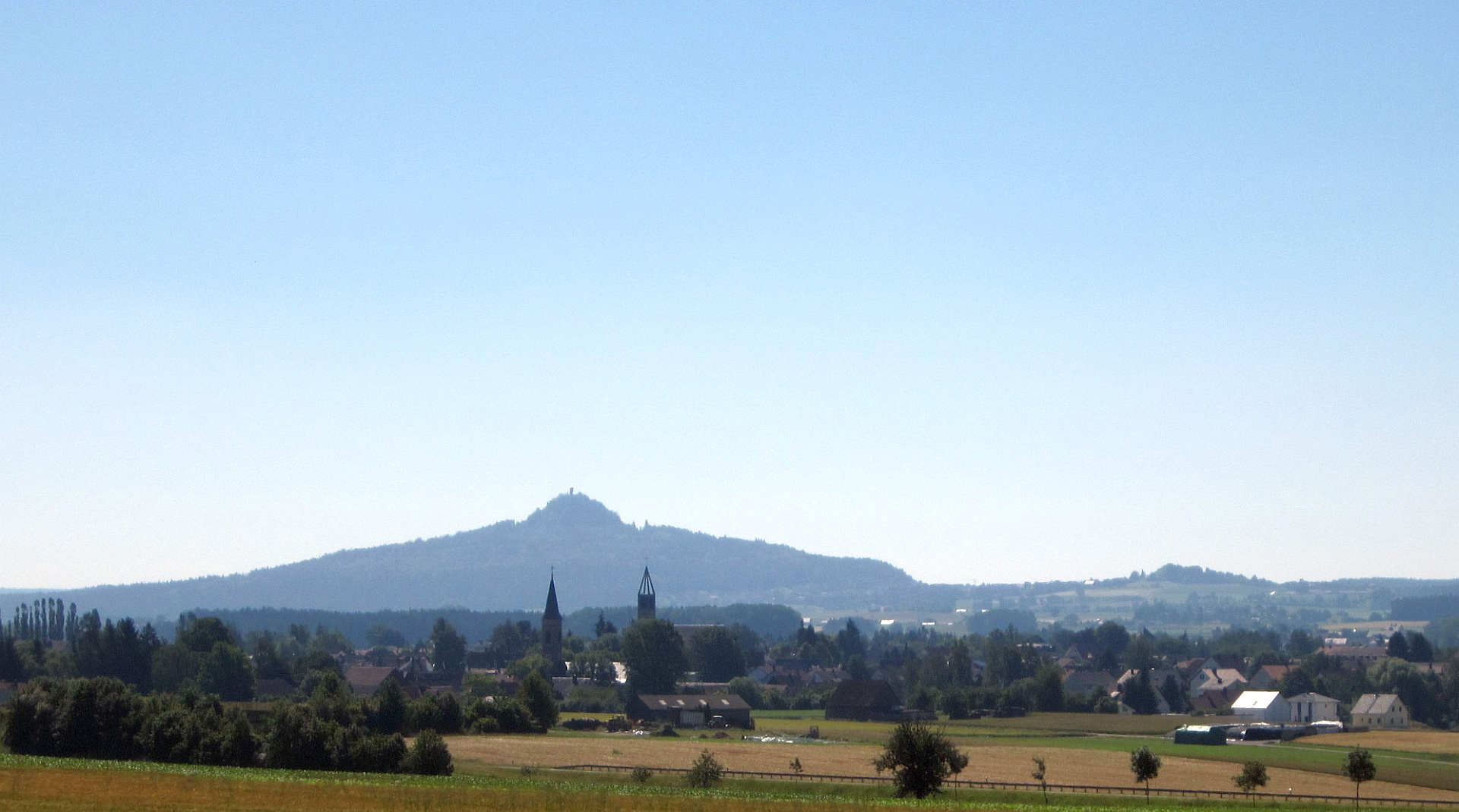 Rauher Kulm from NW, on the right: Kleiner Kulm, foreground: Kirchenlaibach